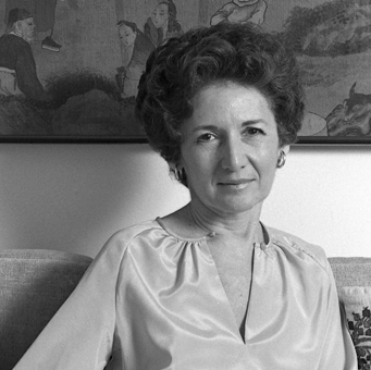 Ada Louise Huxtable photographed in her home, 1976 ©Lynn Gilbert